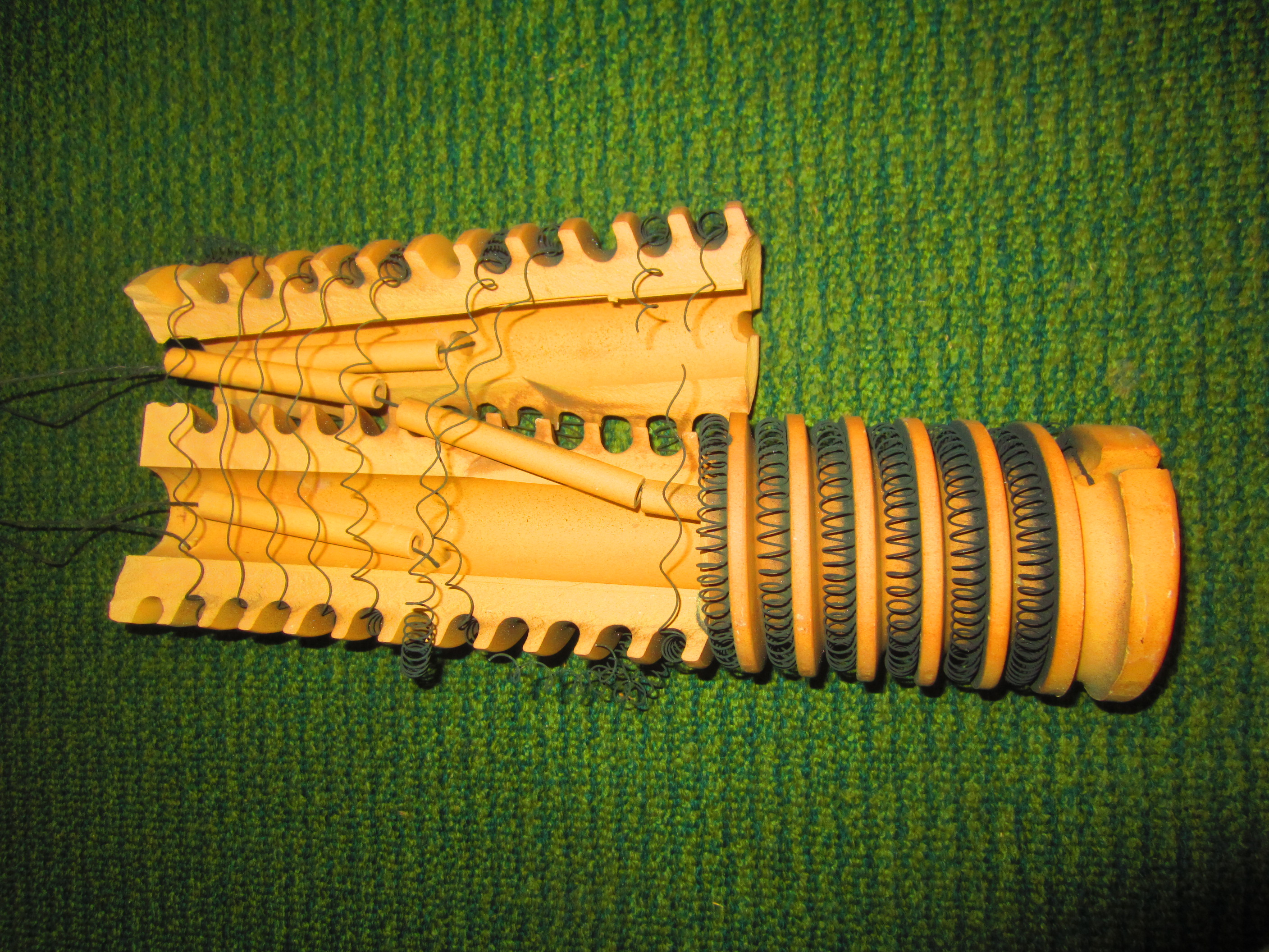 heating element of a storageheater